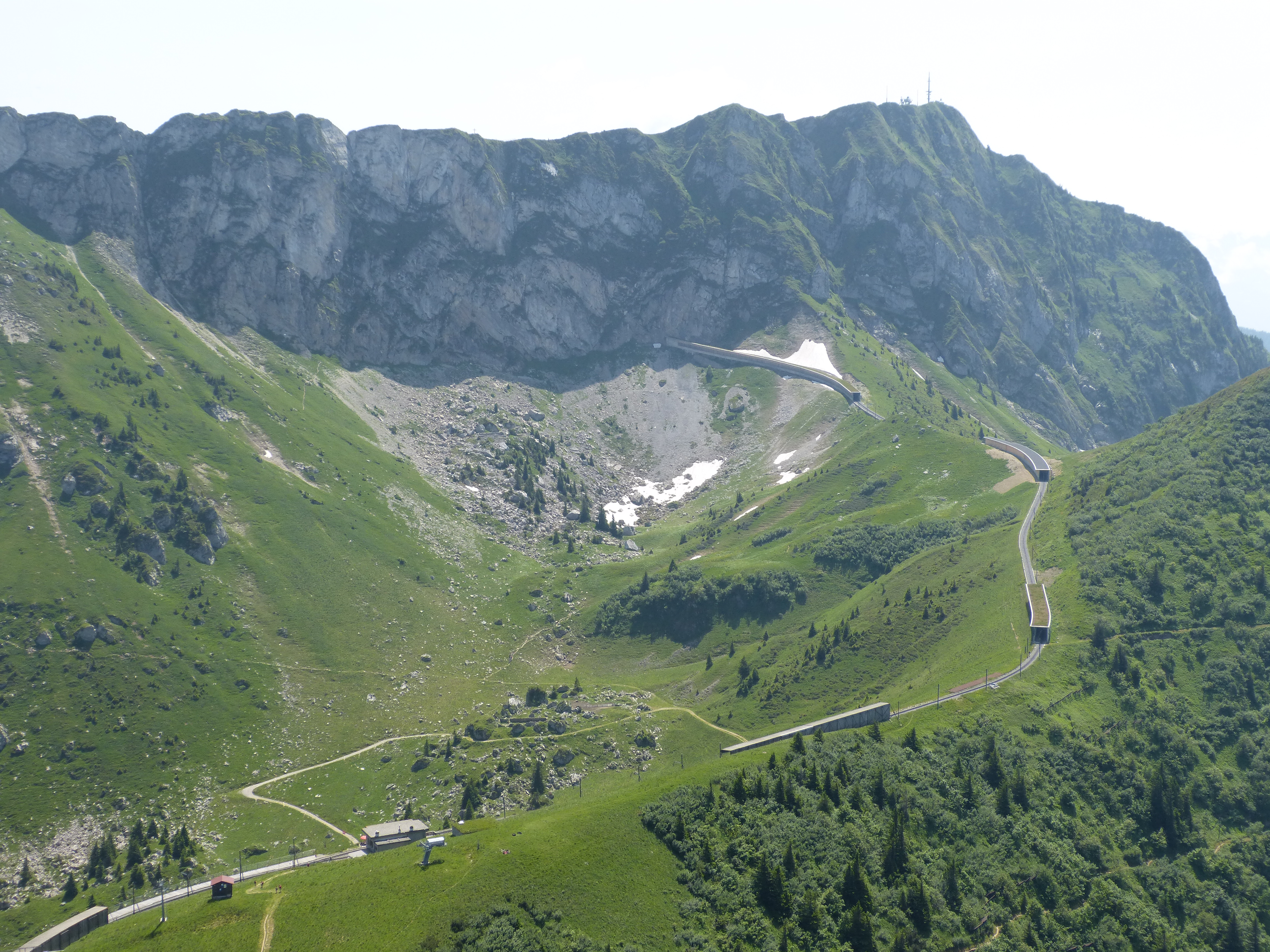 Line MGN between Jaman and Rochers de Naye.